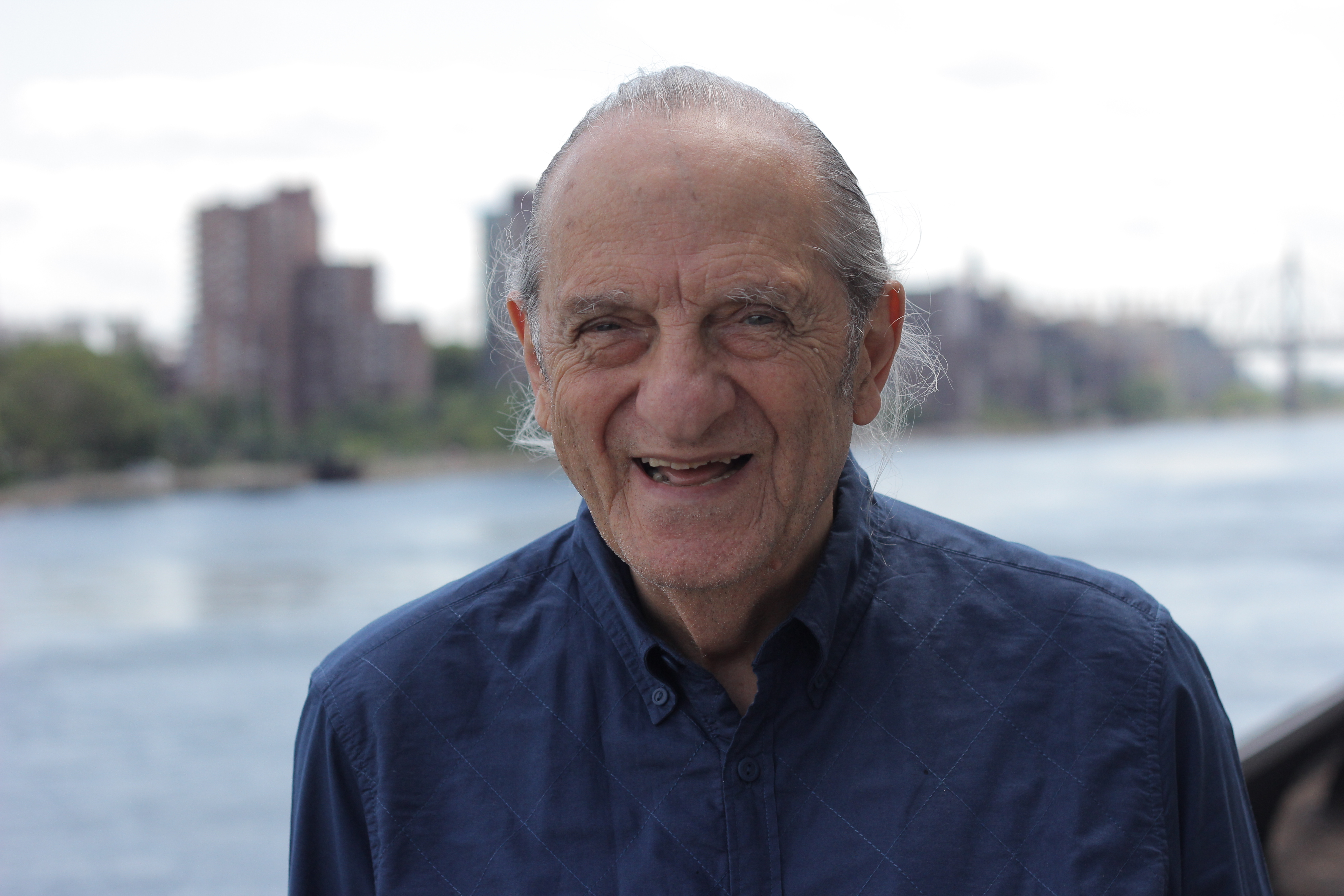 Dr. Jerry Epstein by the East River